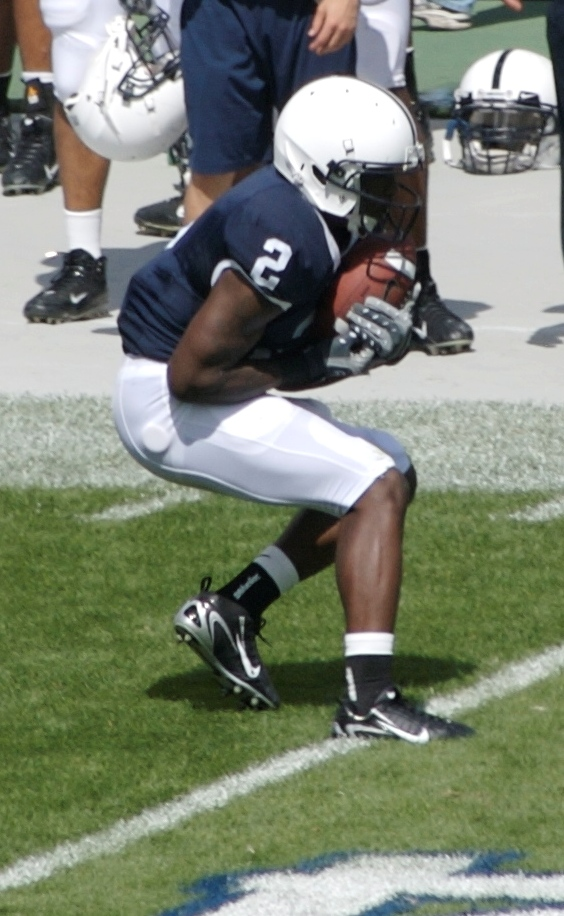 Penn State took on Florida International University at Beaver Stadium in University Park, PA on Saturday September 1, 2007. The final score was 59-0 with Penn State as the victor.